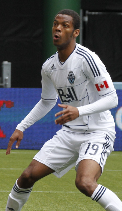 Portland Timbers reserves vs Vancouver Whitecaps reserve, May 2012